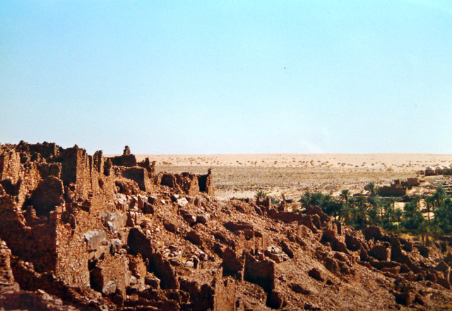 Ouadane, pictured in 1999.